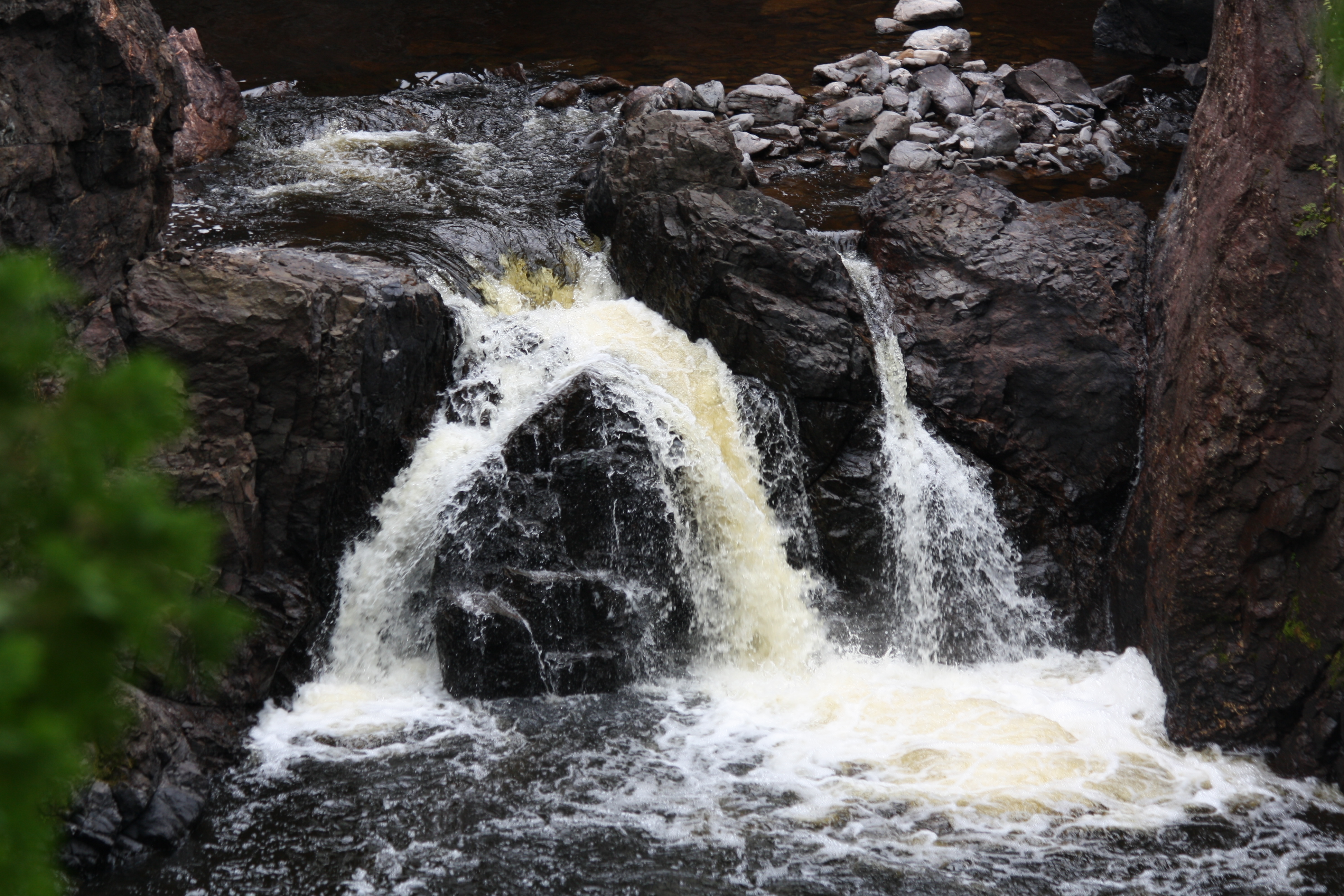 Copper Falls, the namesake of the Copper Falls State Park.